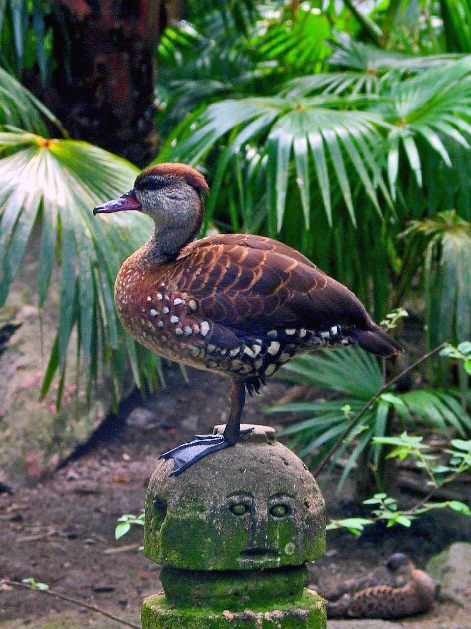 Spotted Whistling-duck (Dendrocygna guttata). Dysmorodrepanis 04:49, 27 May 2008 (UTC)